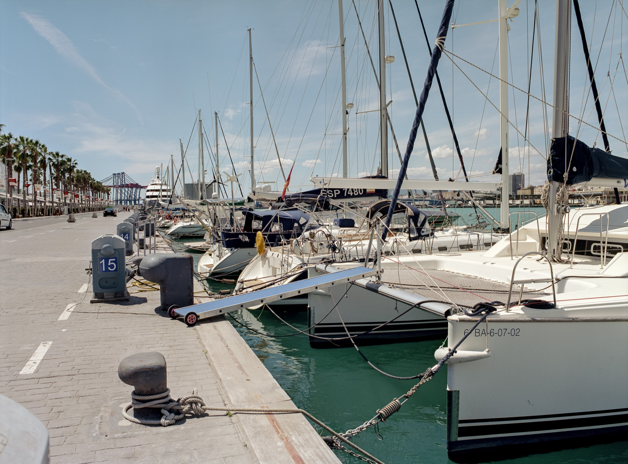 Muelle uno, Port of Málaga, Spain.